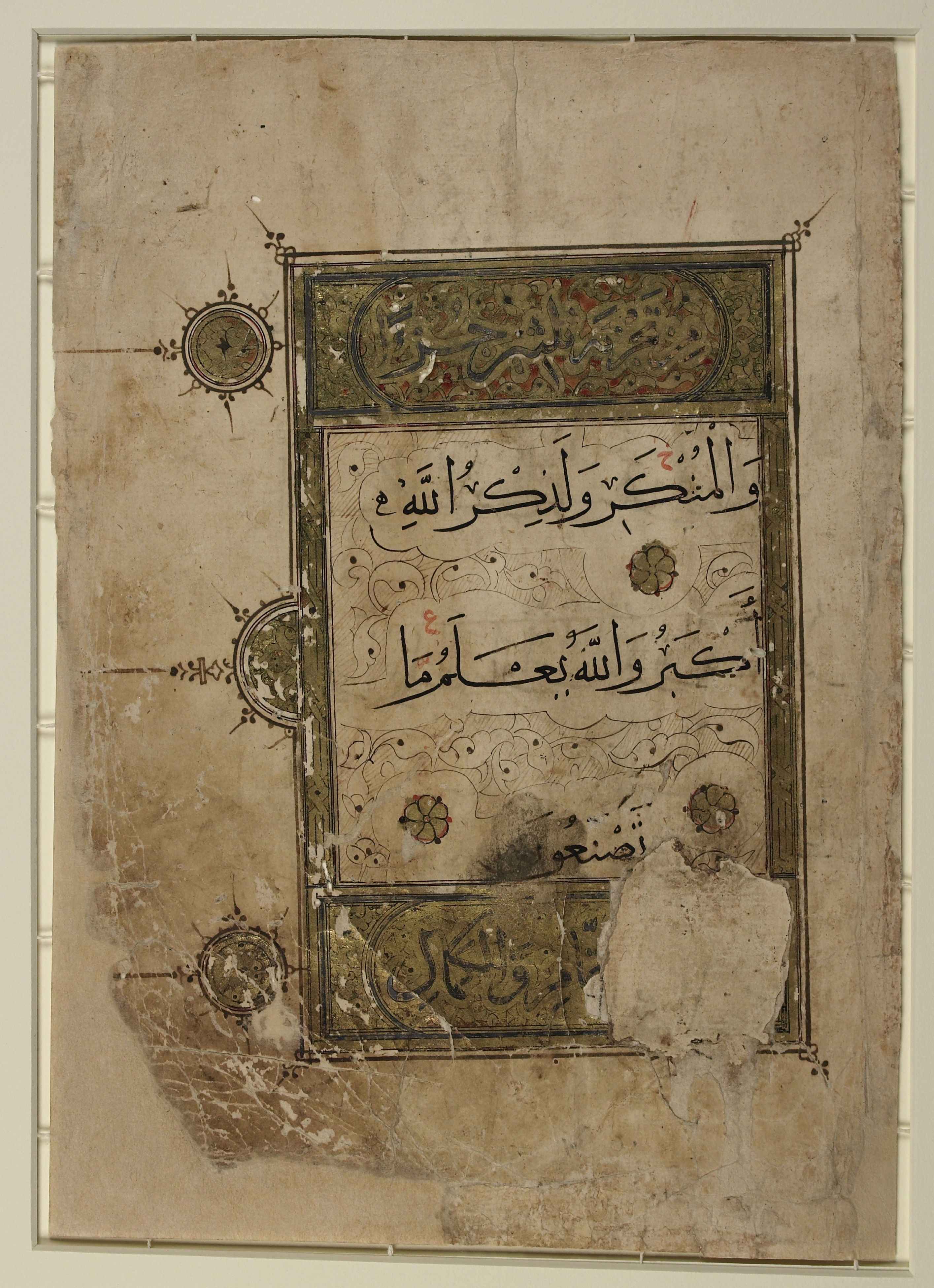 The 45th verse of the 29th chapter of the Qur'an entitled al-'Ankabut (The Spider). Executed in black masahif script, the text is surrounded by lightly outlined cloud bands. In the interstitial spaces appear vine leaves and palmettes on a background of parallel striations. Such motifs are typical of Mamluk Qur'ans produced in Egypt during the 14th and 15th centuries. Script: Masahif.